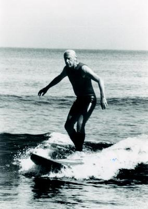 Gerhard Ringel on the surfboard